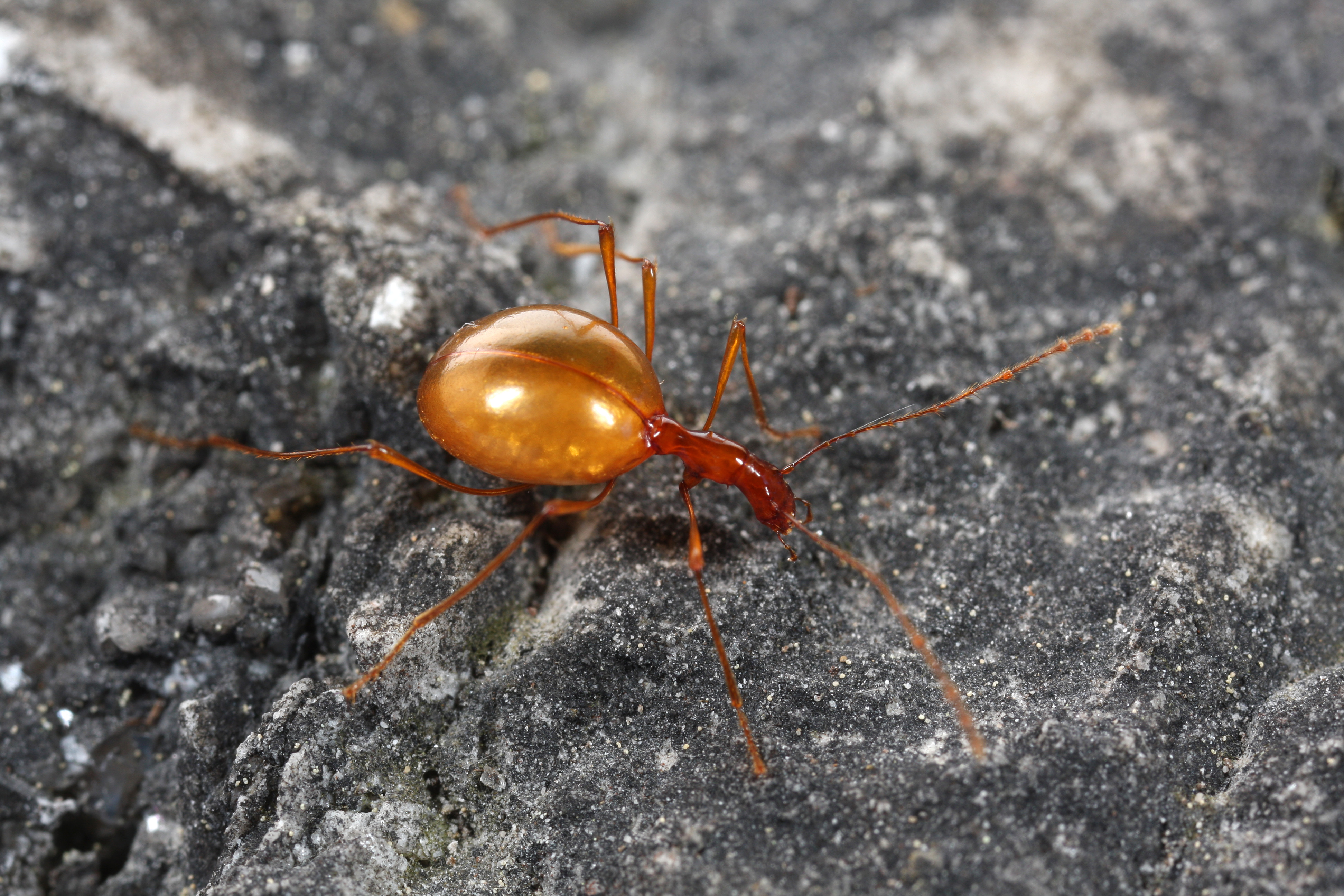 The blind cave beetle Leptodirus hochenwartii (fam. Leiodidae) from a cave in the Inner Carniola region, Slovenia (more precise locality not given due to conservational concerns); the animal is around 1 cm long The bright colors are partly due to the flash; under natural light, the colors are much less obvious. When the flash fires, the head and the thorax appear reddish due to reflection (its exoskeleton is very thin and almost translucent).